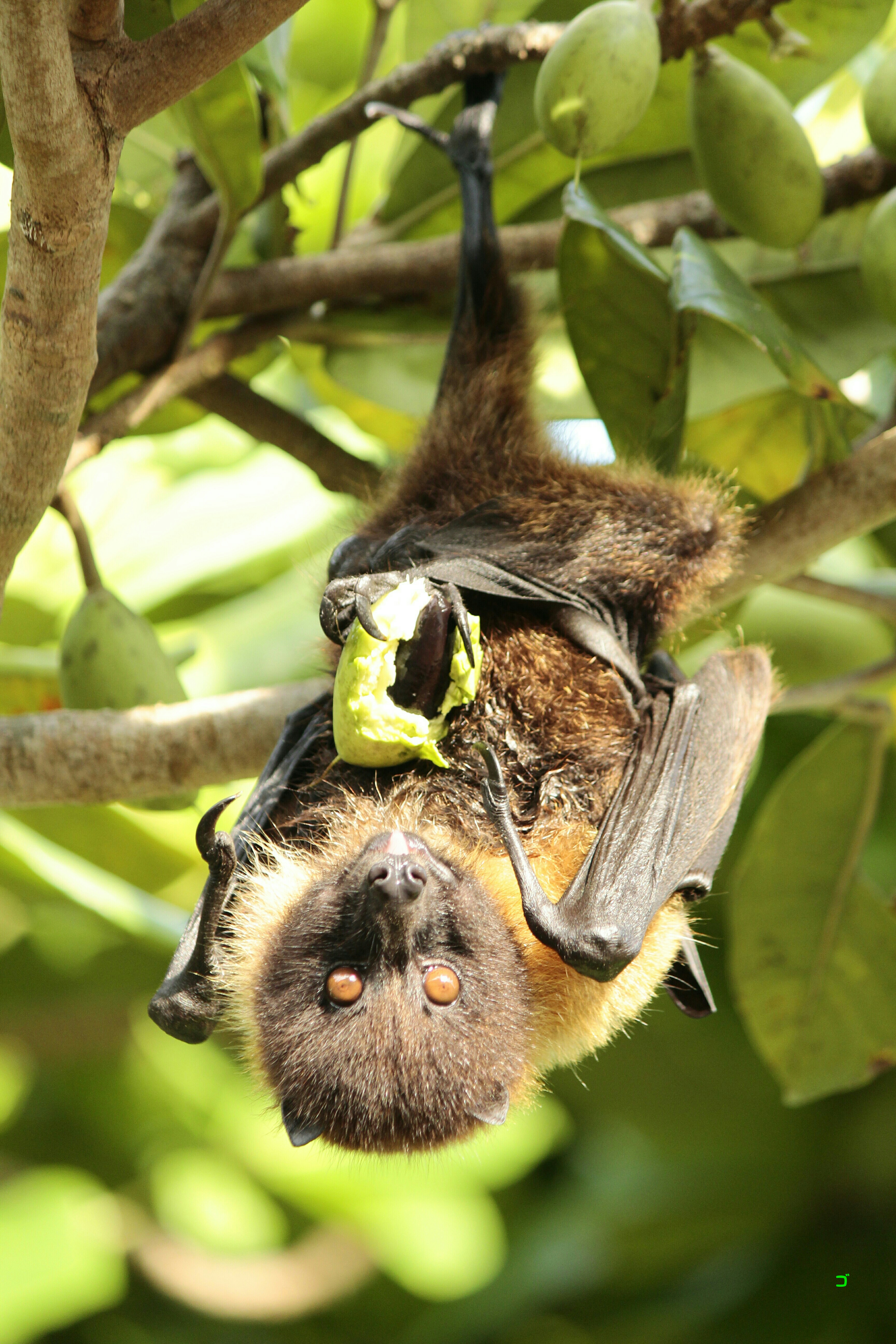 flying fox